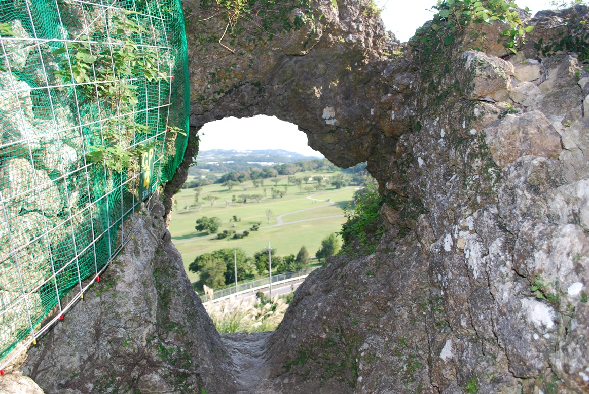 Historic sites of Tamagusuku Castle 01